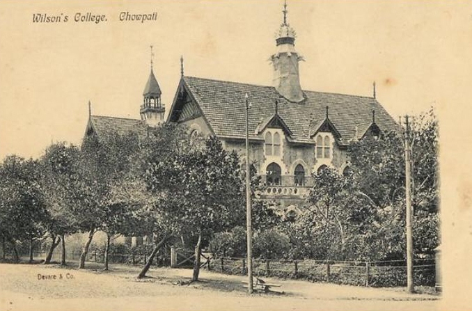 A photograph of The Wilson College taken in the 20th century.